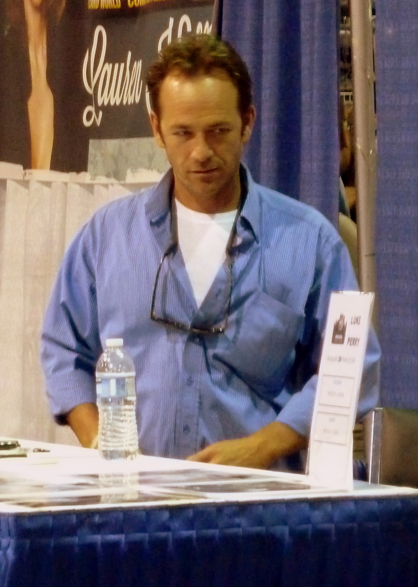 Luke Perry 01 Guests at Wizard World Chicago 2012.